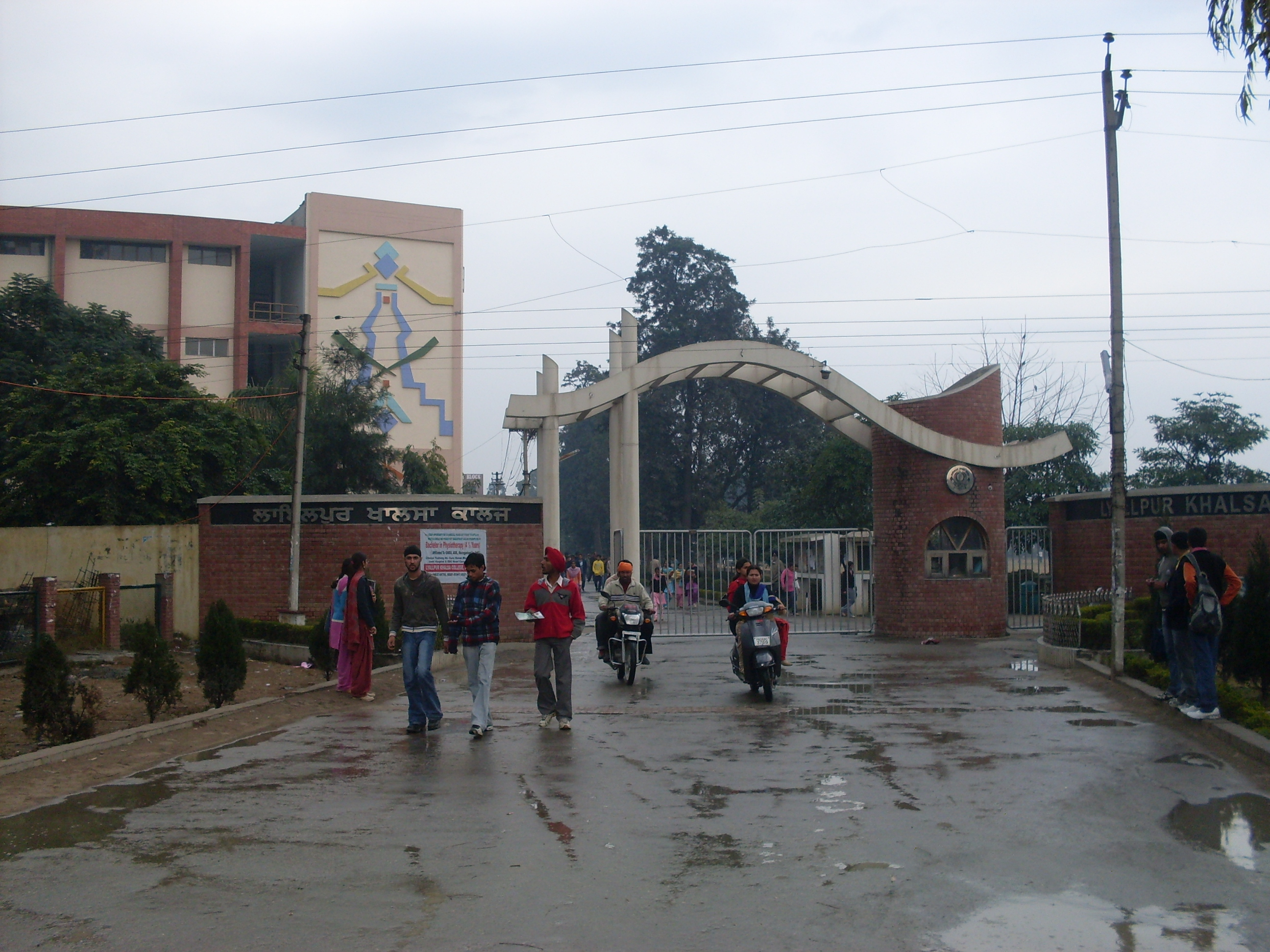 The main entrance of Lyallpur Khalsa College, GT Road, Jalandhar City (Punjab)